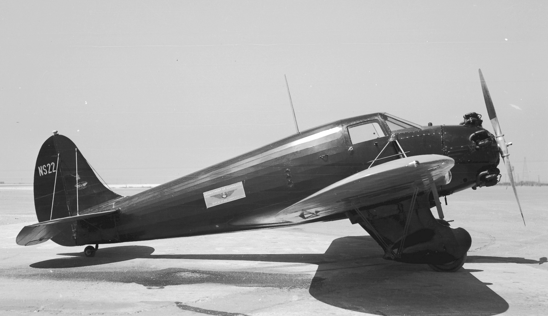 Depart of Commerce, Bureau of Aeronautics plane in their standard Black and Galatea Orange. At San Francisco Bay Airdrome, Alameda, CA in 1936.